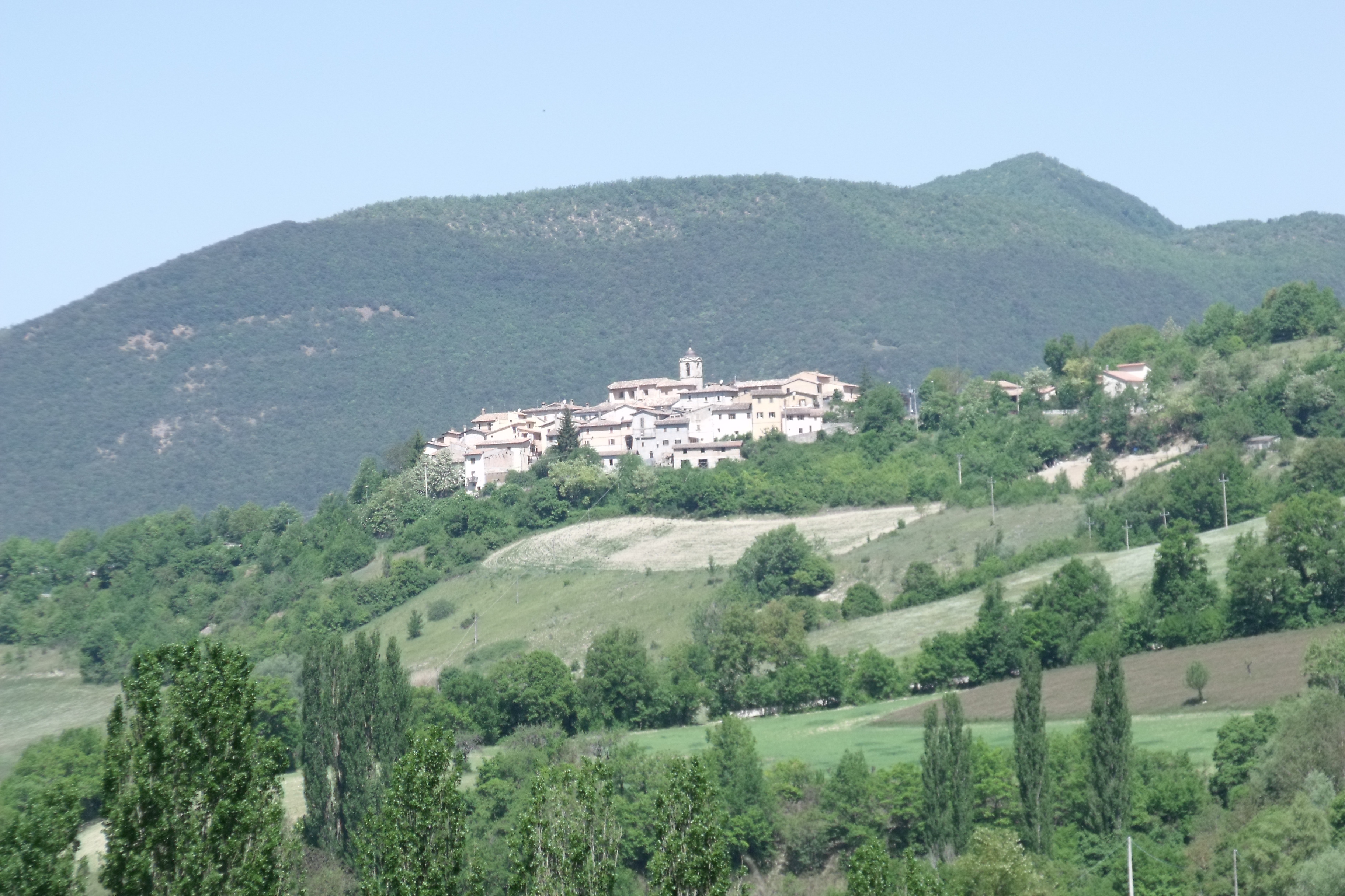 Panorama of Castelvecchio, Municipality of Preci, Province of Perugia, Umbria, Italy